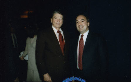 President Ronald Reagan (2-10) Trip to Michigan, remarks to Bush Quayle '88 Rally President Ronald Reagan and John Engler, (Not in all Photos) (11-31) Trip to Michigan, photo op